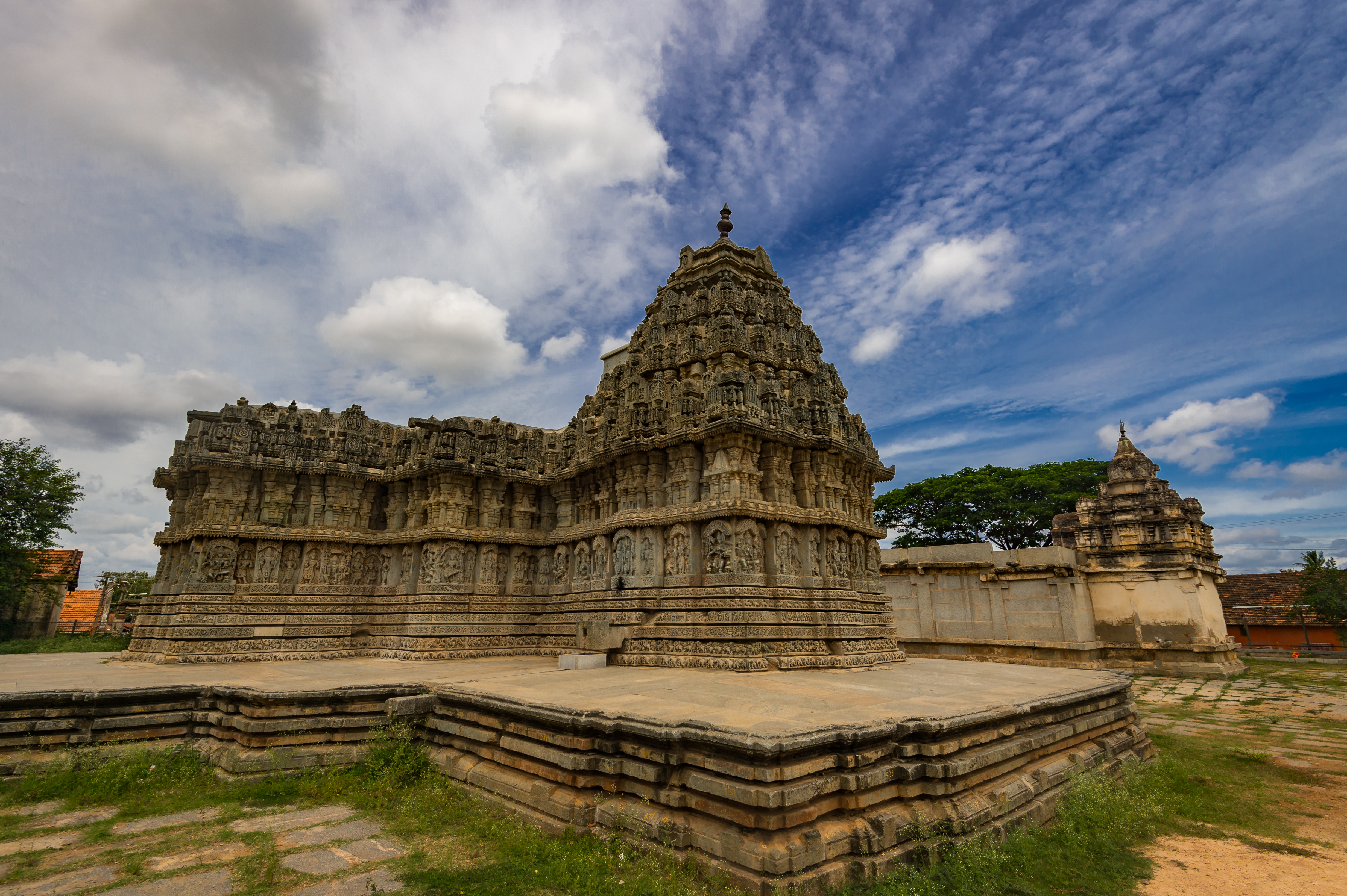 Hoysala Architechtures